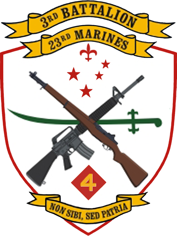 United States Marine Corps 3rd Battalion 23rd Marines insignia. Made with Photoshop.